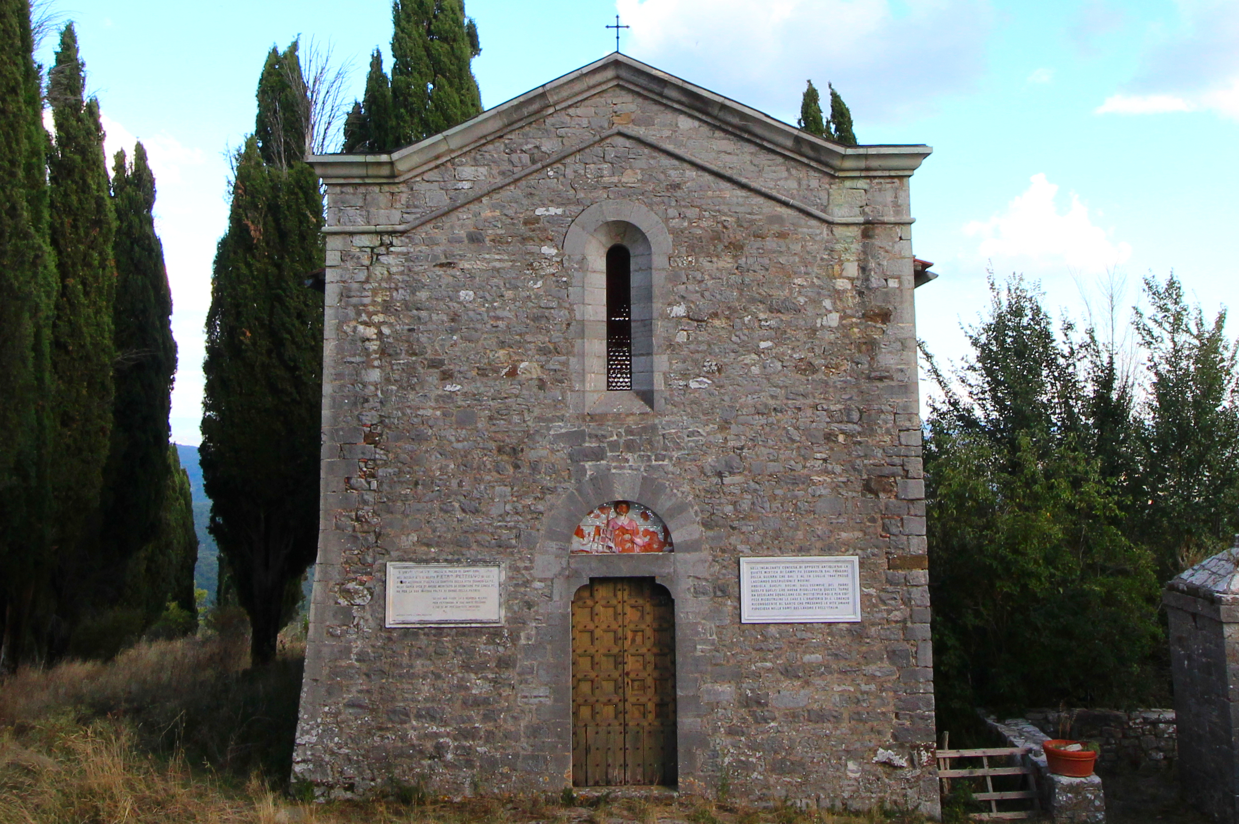 Church San Lorenzo, Campi (Campi del Chianti, Campi della Berardenga), village of San Gusmè, hamlet of Castelnuovo Berardenga, Province of Siena, Tuscany, Italy